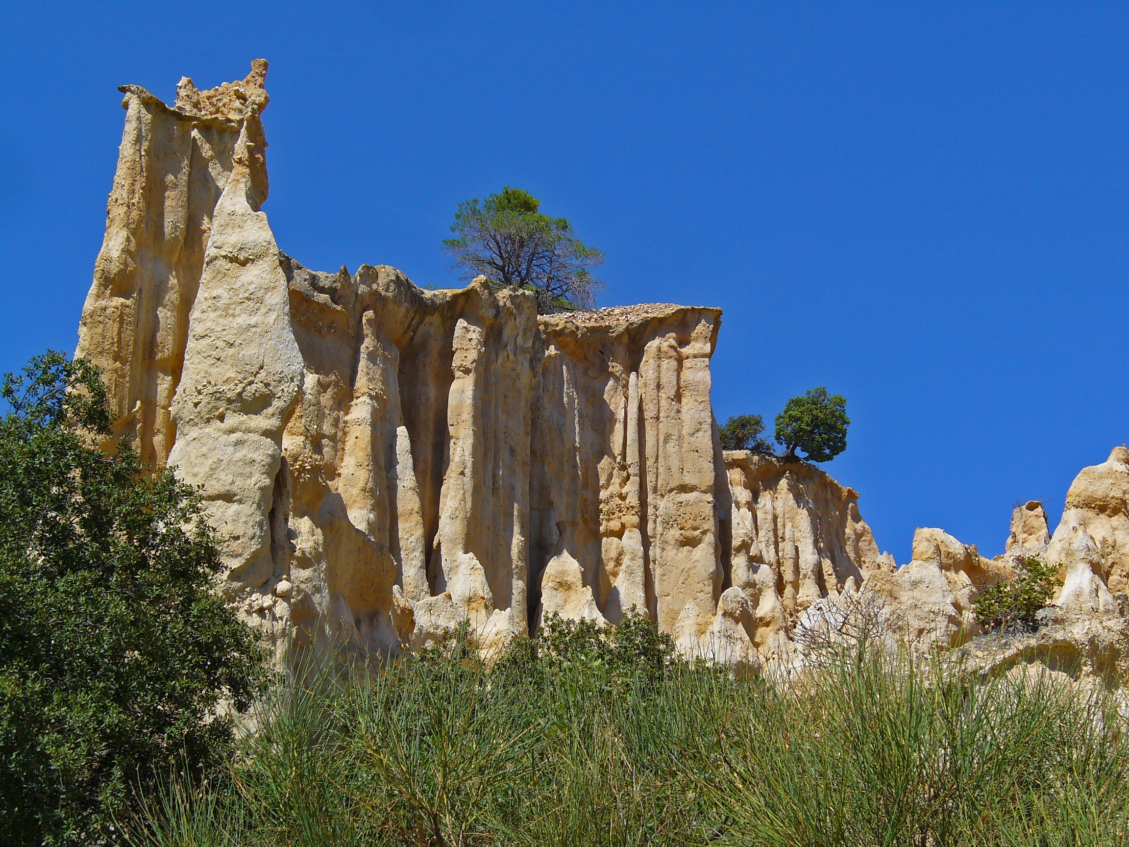 Le site des Orgues, Ille-sur-Têt, Pyrénées-OrientalesFrance